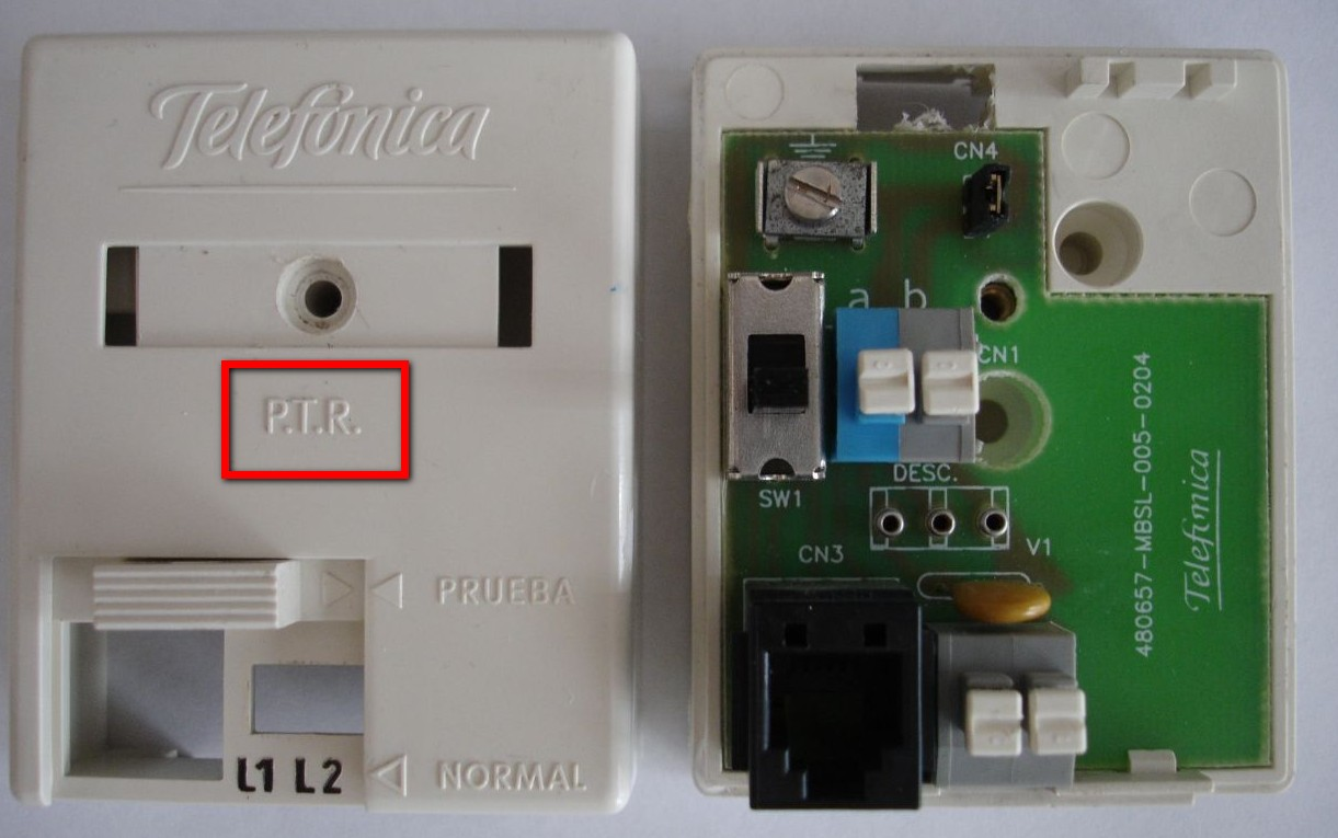 NTU (Network Termination Unit) of Telefónica PLC (Spanish Telco) opened; used for xDSL connections without interruption of data signal.